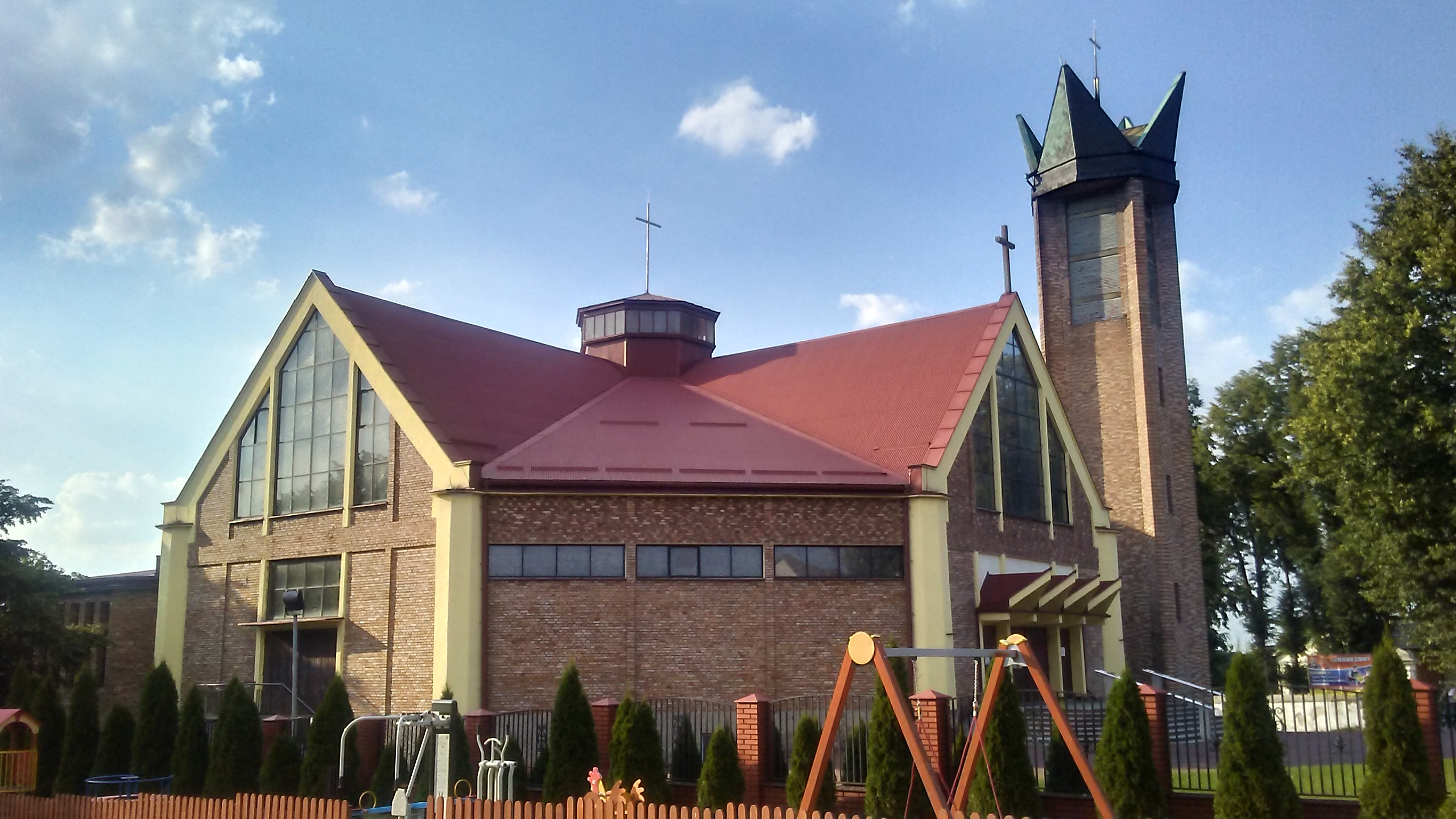 Saint Martin Parish Church, Białobrzegi – dostrict of Tomaszów Mazowiecki